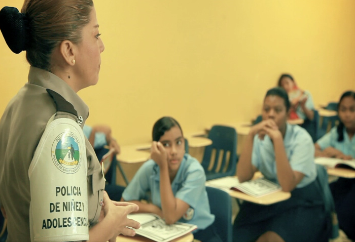 Teenagers Police Departament